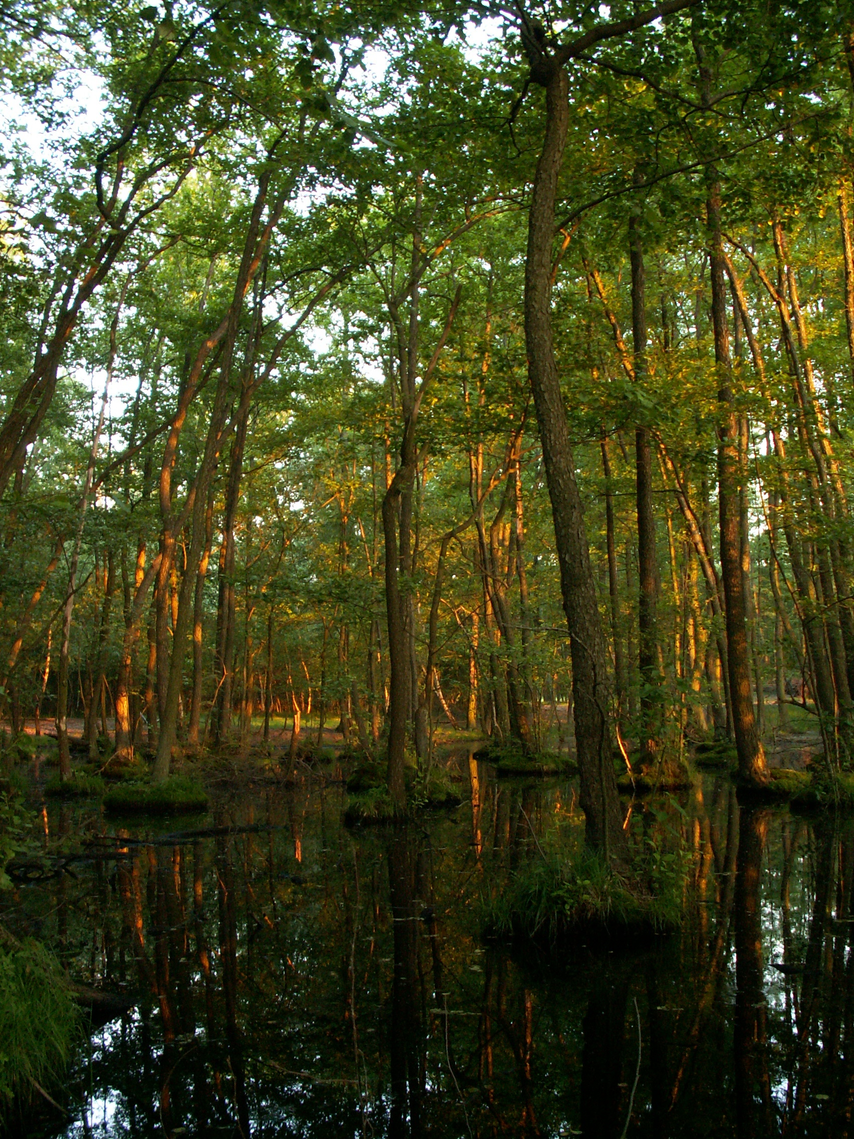 V Dubech